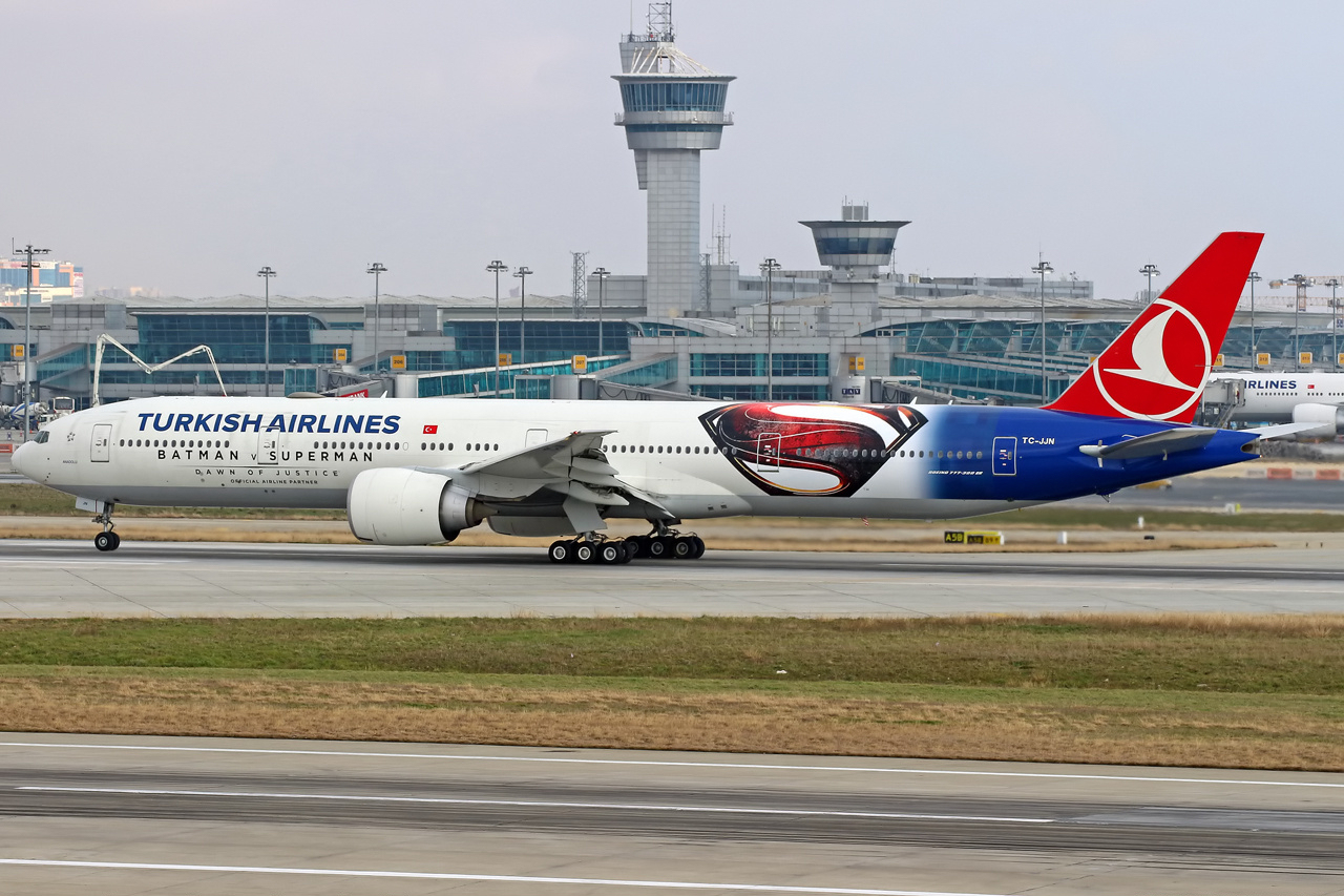 Turkish Airlines Boeing 777 "Batman v Superman" logojet at Ataturk Airport